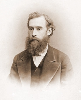 Pavel Tretyakov (1832-1898), Russian businessman, patron of art, collector of Russian painting, the founder of the Tretyakov Gallery (Moscow, 1892). Cropped version.